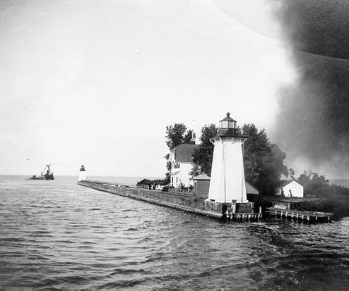 Public Domain statement here; The Grassy Island Range Lights are located in the harbor of Green Bay, Wisconsin.